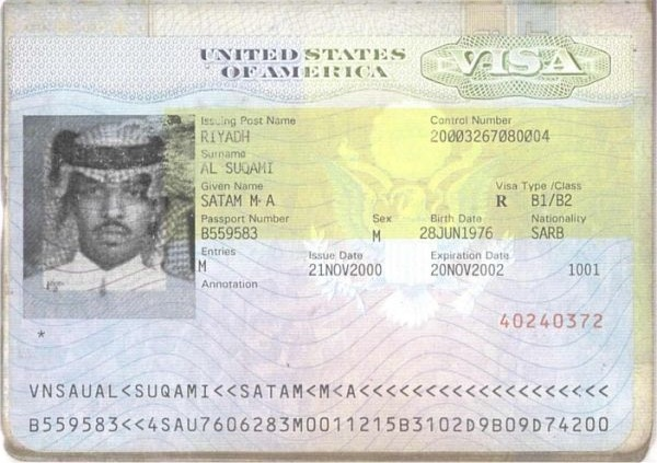 Satam al-Suqami Visa recovered from the American Airlines Flight 11 crash site.